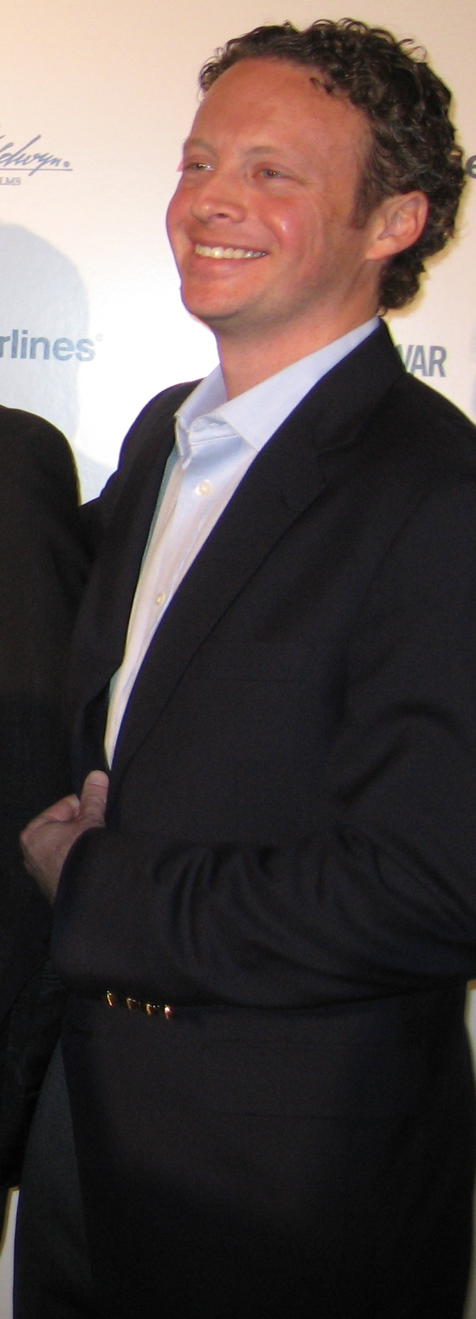 Film producer Jake Rademacher at the premier of Brothers At War at the National Press Club, February 20, 2009.